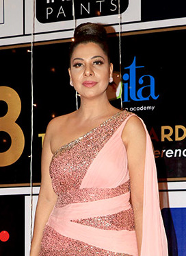 Seth at ITA Awards 2018